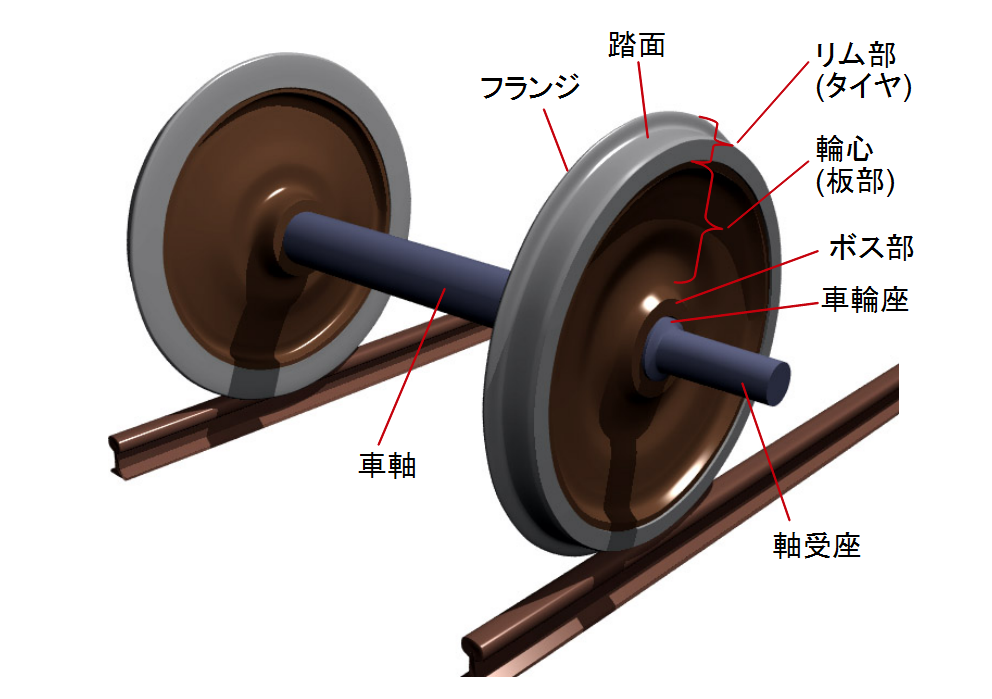 diagram of rollingstock wheelset with japanese description